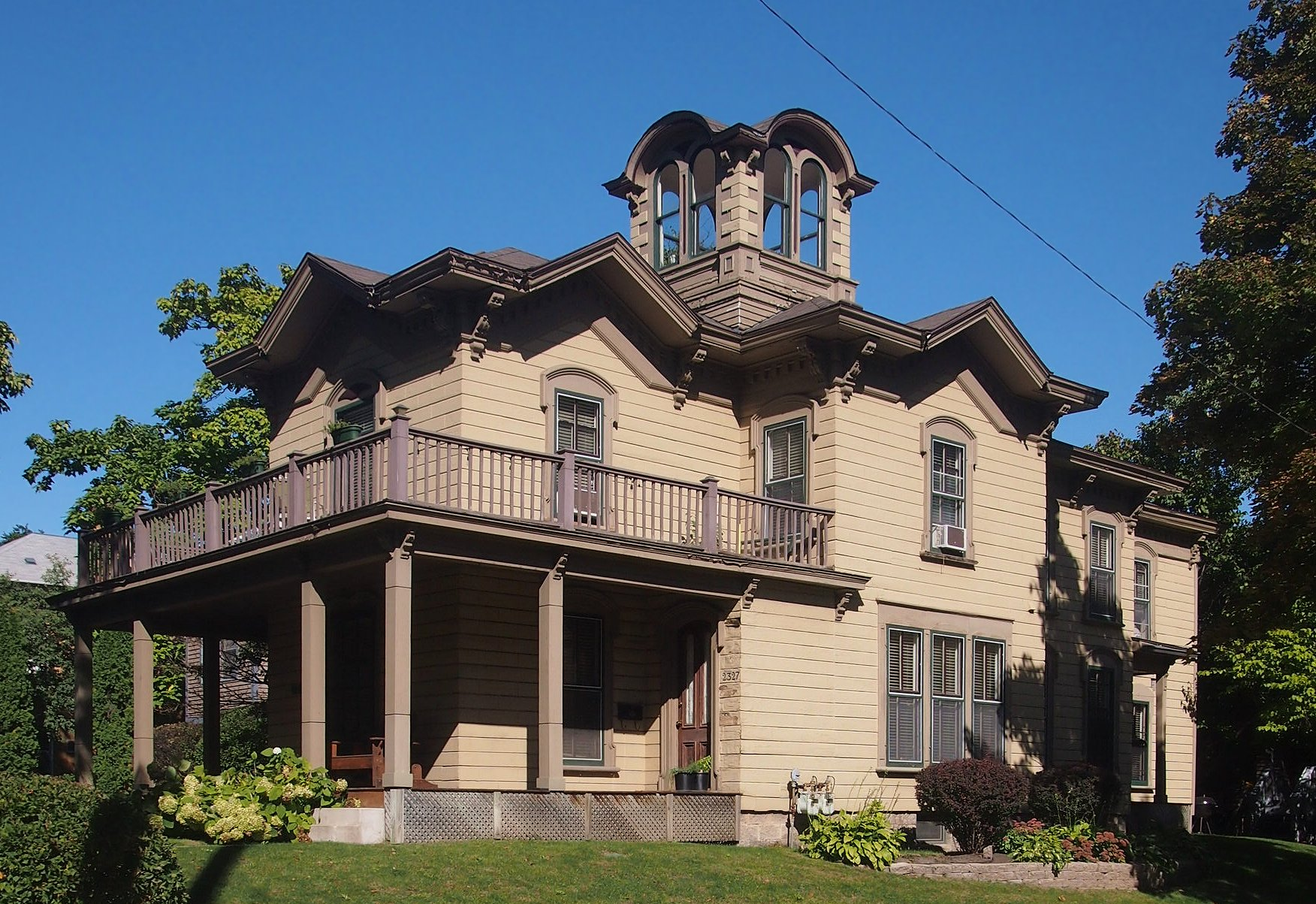 Elisha and Lizzie Morse Jr. House, 2325–2327 Pillsbury Ave S, Minneapolis, Minnesota, USA. Viewed from the southwest.